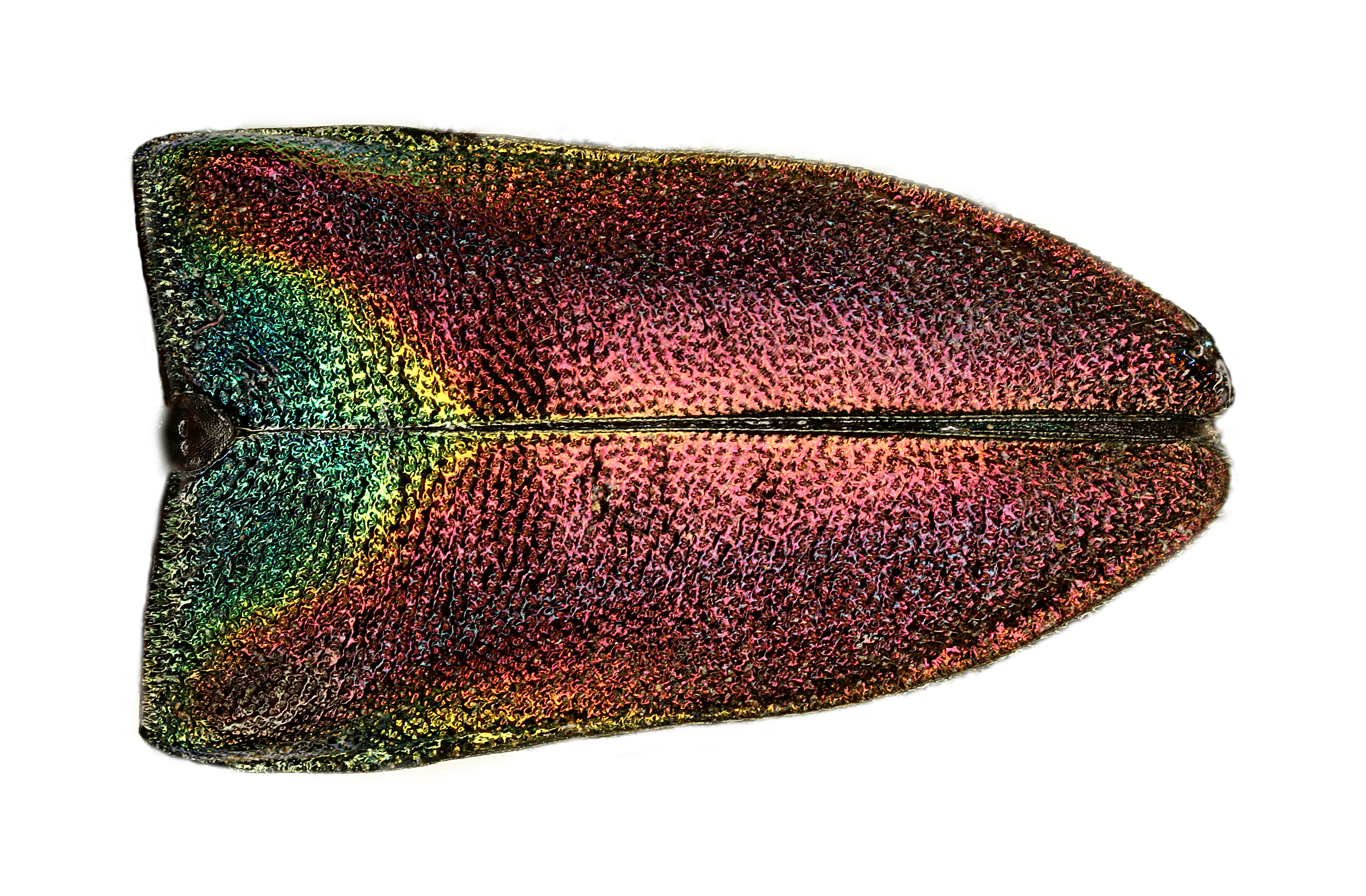 Elytra of Anthaxia passerinii